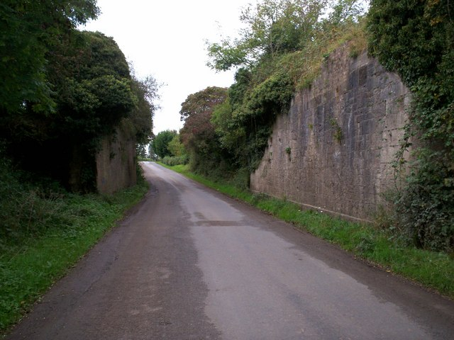 Remains of an old Railway Bridge, Ballybrannon Road, Armagh This railway bridge carried the former railway line from Portadown to Armagh. The line is also proposed to be reopened.